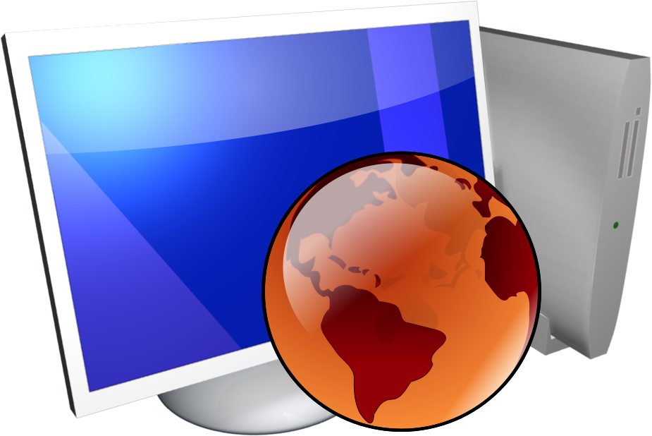 Computer-globe